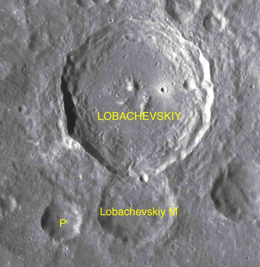 Part of the chart LAC-65 used for the presentation